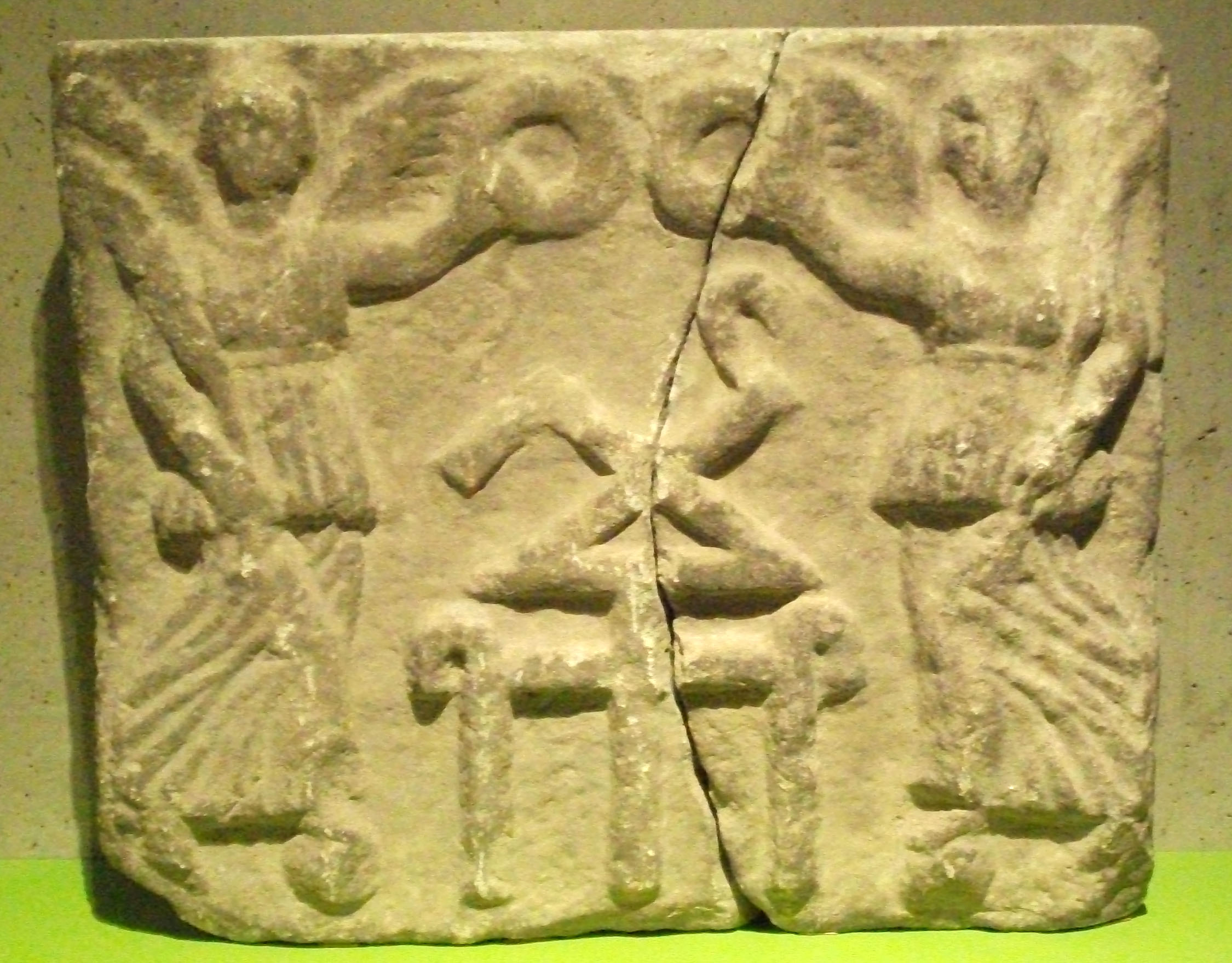 Tamga of King Tiberius Julius Eupator of the Bosporan Kingdom, crowned by two winged victories. Photo taken in a temporary exhibition at Bonn, Germany.